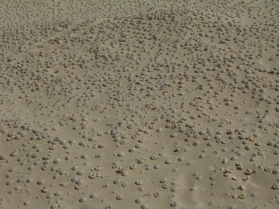 Subfossil shells of Mandarina luhuana (Pulmonata: Bradybaenidae) at Minamijima, Ogasawara, Tokyo, Japan